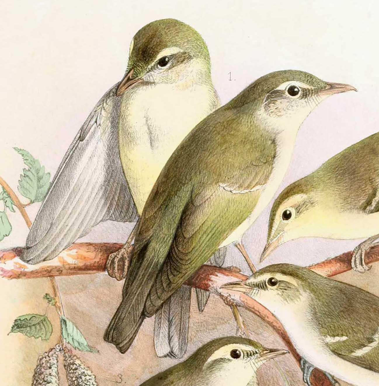 « Phylloscopus (Acanthopneuste) borealis var. xanthodryas » = Phylloscopus xanthodryas (Japanese Leaf Warbler) - male